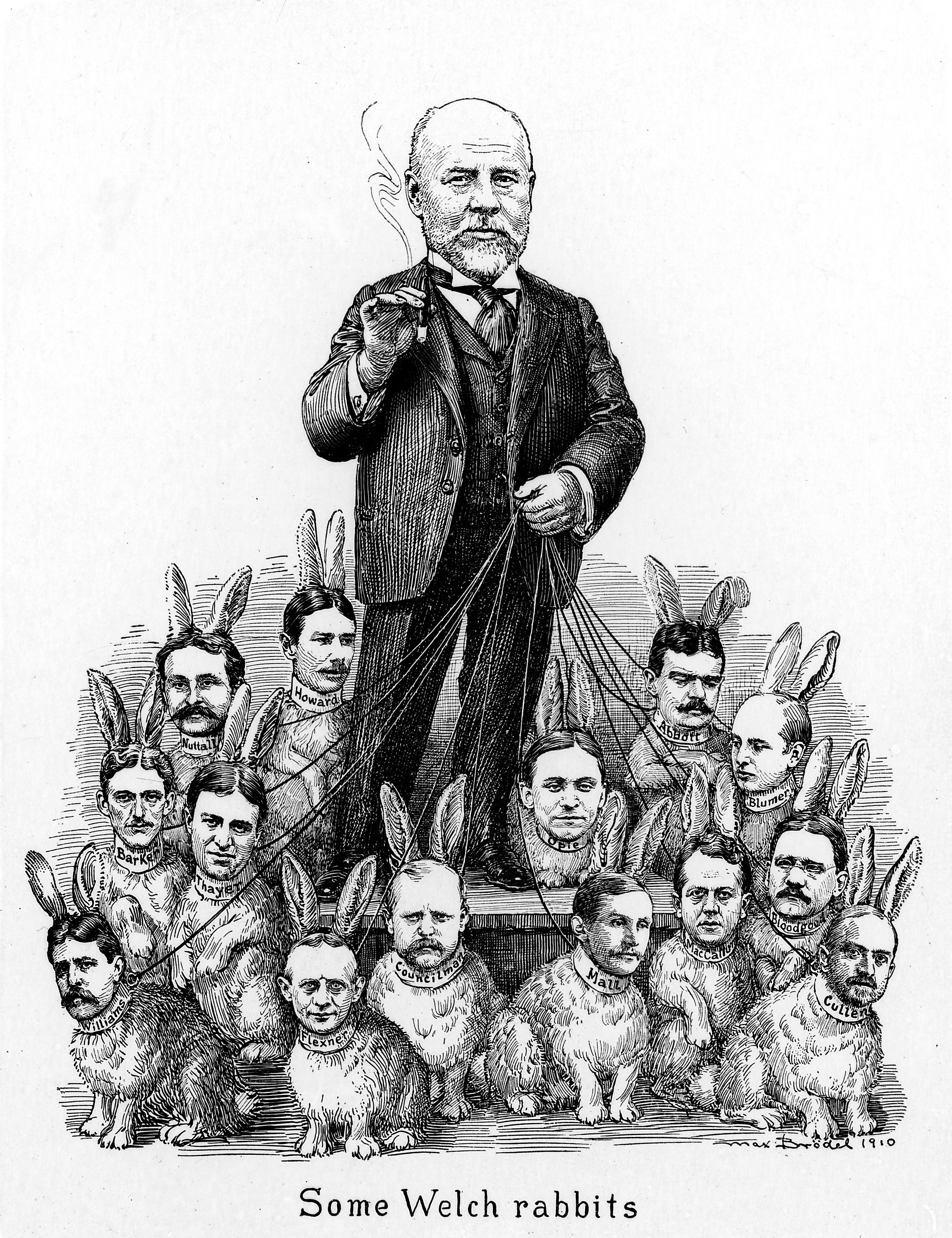 'Some Welch rabbits', a caricature of W.H. Welch and his pupils (?) Iconographic Collections Keywords: Max Broedel; W.H. Welch